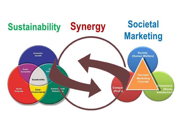 Societal Marketing